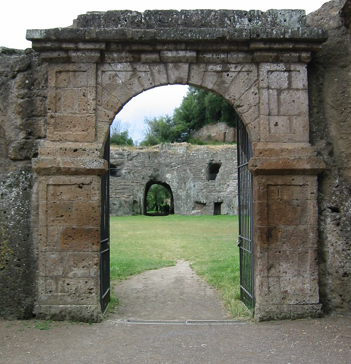 The ancient roman amphitheatre of Sutri in Lazio, Italy. Sign in front of the anfiteatro